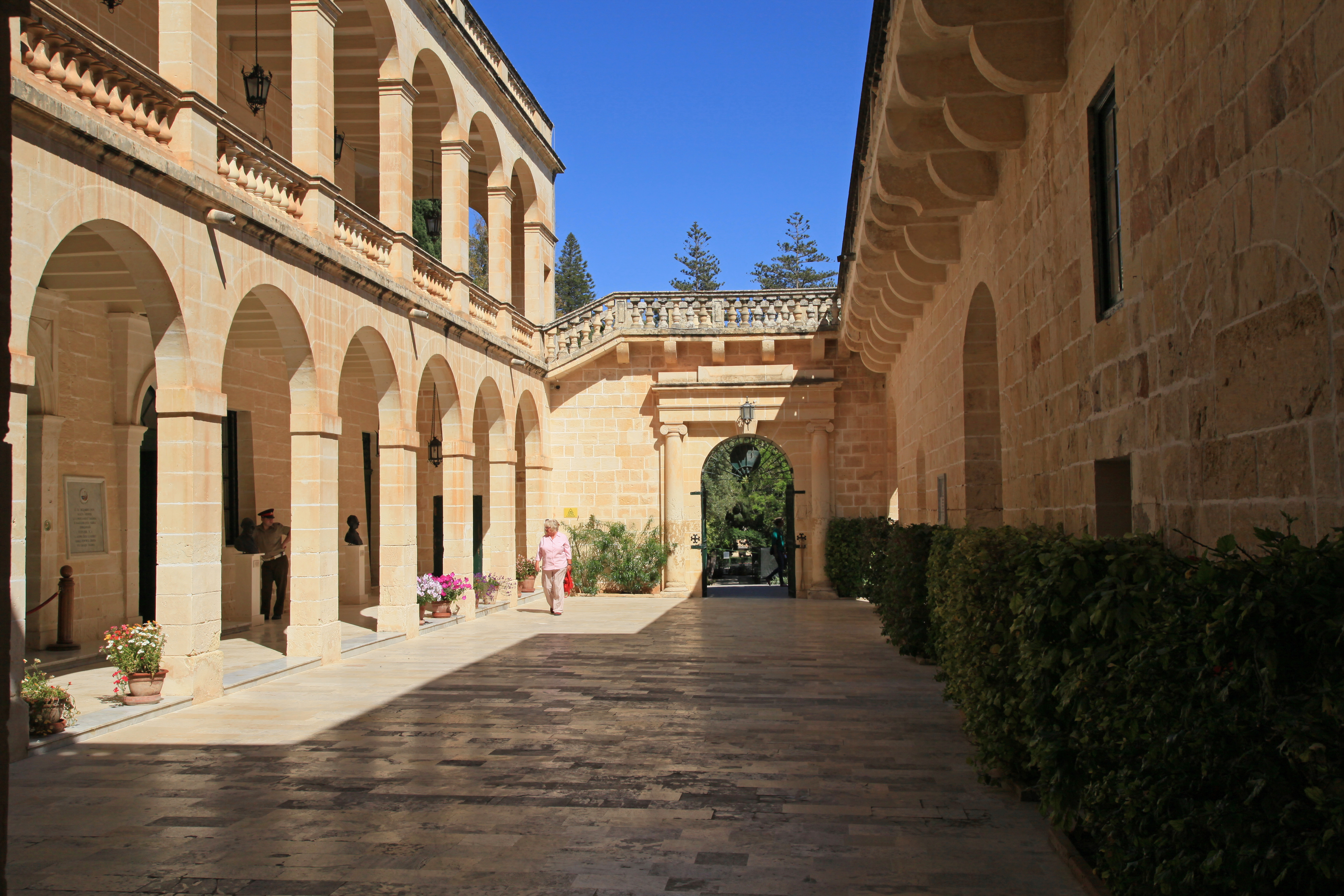 San Anton Palace, Triq Sant Antnin / San Anton Gardens in Attard, Malta